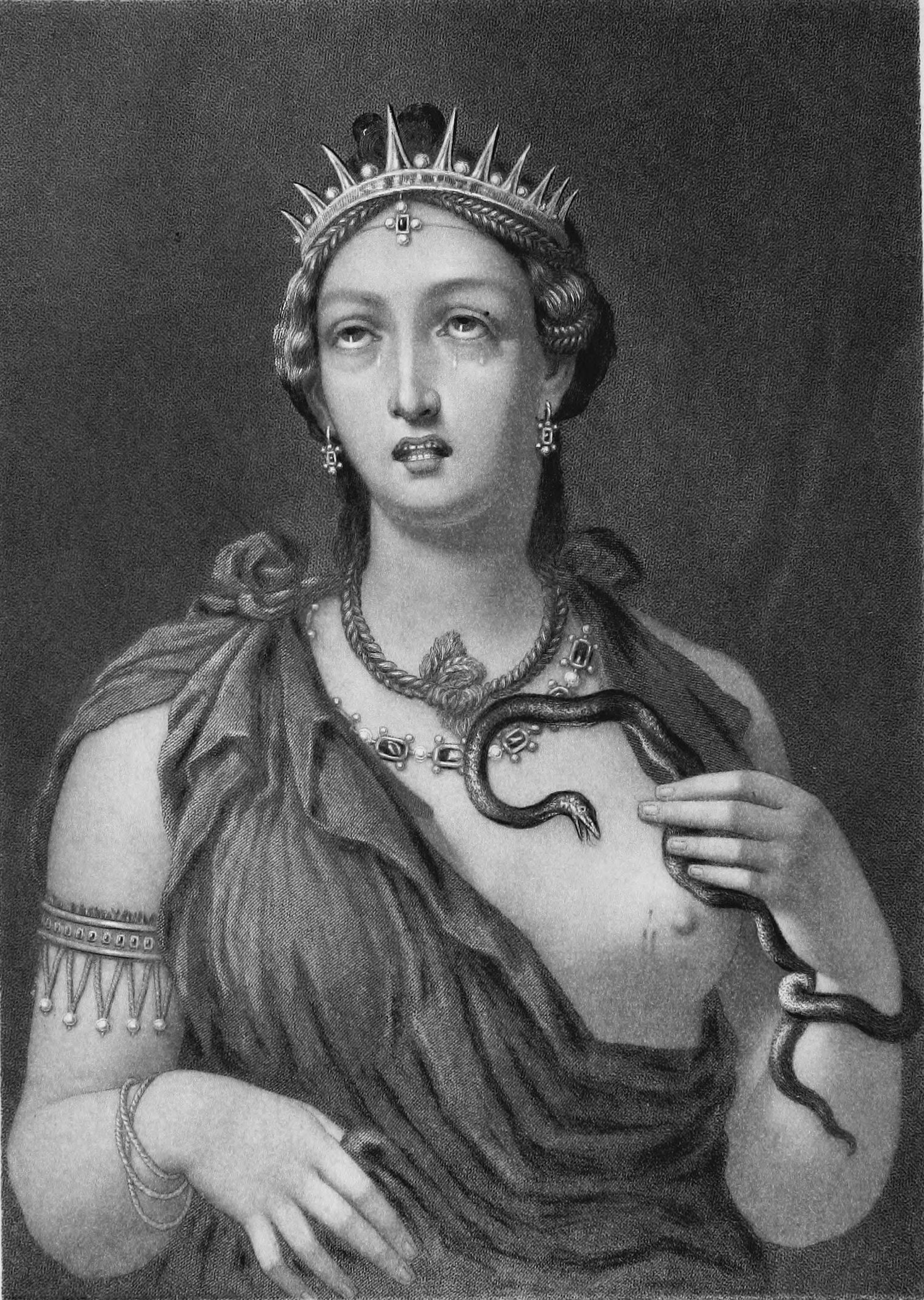 Engraving depicting Caesar Augustus' now lost painting of Cleopatra VII in encaustic, which was discovered at Emperor Hadrian's Villa (near Tivoli, Italy) in 1818. She is seen here wearing the golden radiant crown of the Ptolemaic rulers (Sartain, 1885, pp. 41, 44) and being bitten by an asp in an act of suicide. She also wears the knot of Isis (i.e. tyet) around her neck, which corresponds to Plutarch's description of her wearing the robes of the Egyptian goddess Isis (Plutarch's Lives, translated by Bernadotte Perrin, Cambridge, MA: Harvard University Press; London: William Heinemann Ltd., 1920, p. 9.)